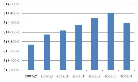 GDP Illustration